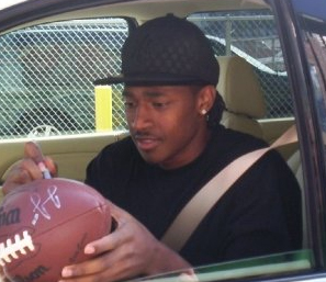 Tramon Williams signing an autograph while leaving the players parking lot at Lambeau Field